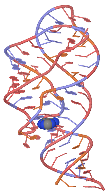 Tertiary structure of the purine riboswitch. The image was generated by Jmol from the PDB:1y26 structure.